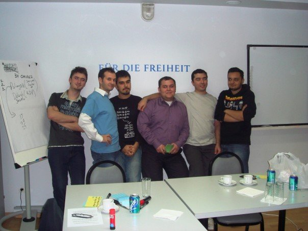 The members of the first congress of 3H movement that declared the the 3H manifesto.